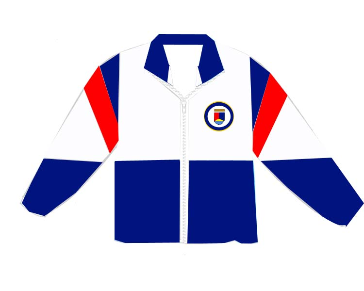 MBC Uniform